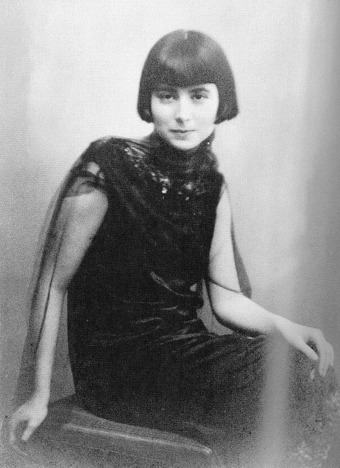 Friederike (Friedl) Roth nee Reichler, the wife of an Austrian writer Joseph Roth married to him in 1922, circa 1920. Developed schizophrenia in 1928, was institutionalized in 1930, and euthanized by the Nazis in 1940.